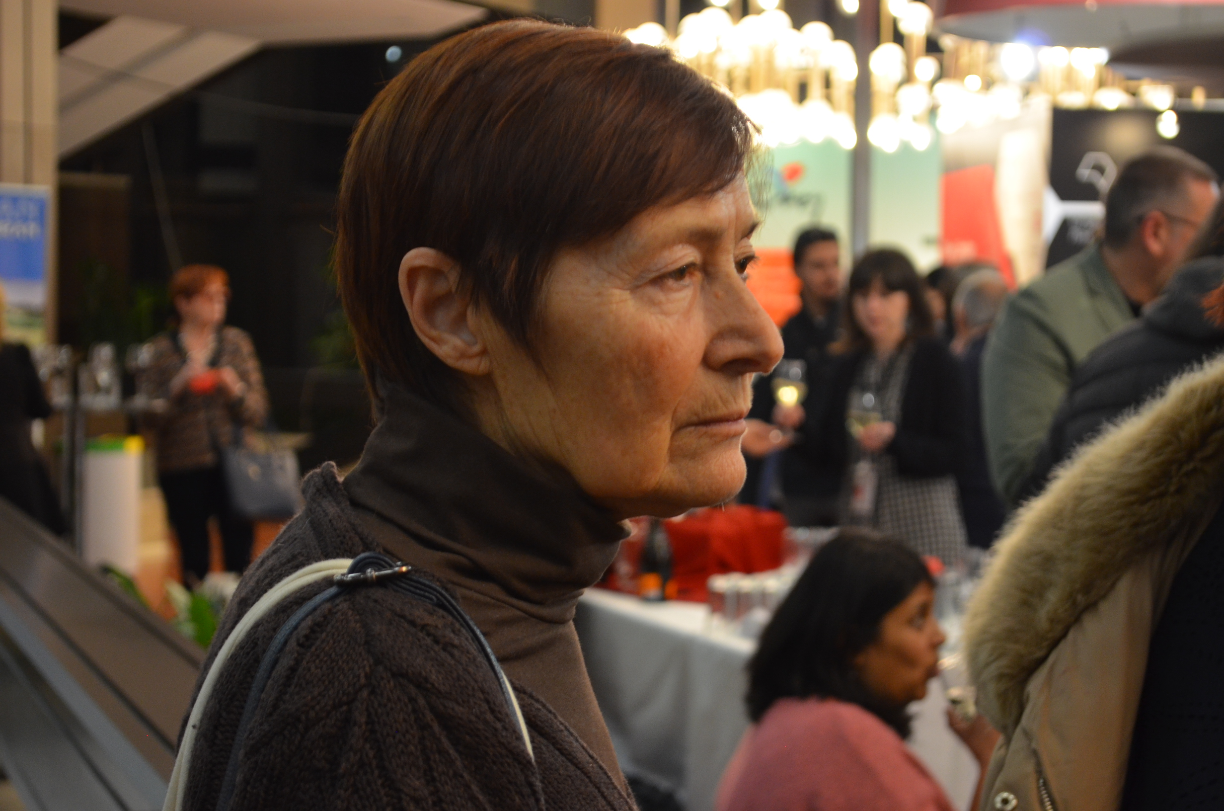 Bulgarian literary translator Zhela Georgieva at Sofia Book Fair, December, 14th 2018.